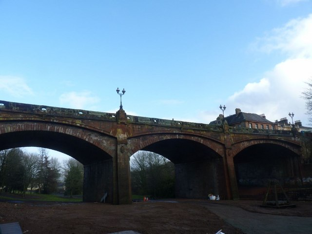 Cadzow Bridge, Hamilton